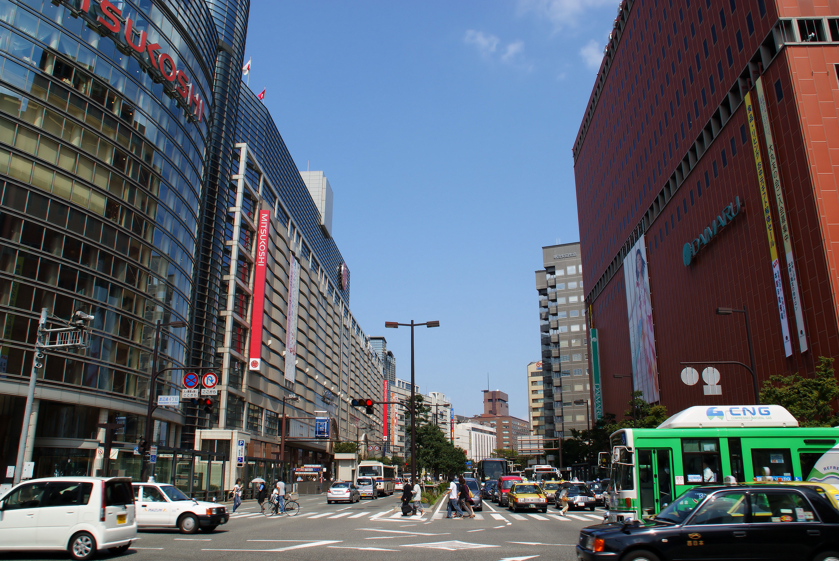 Watanabe-dori Avenue in Chuo-ku, Fukuoka City, Fukuoka Prefecture, Japan